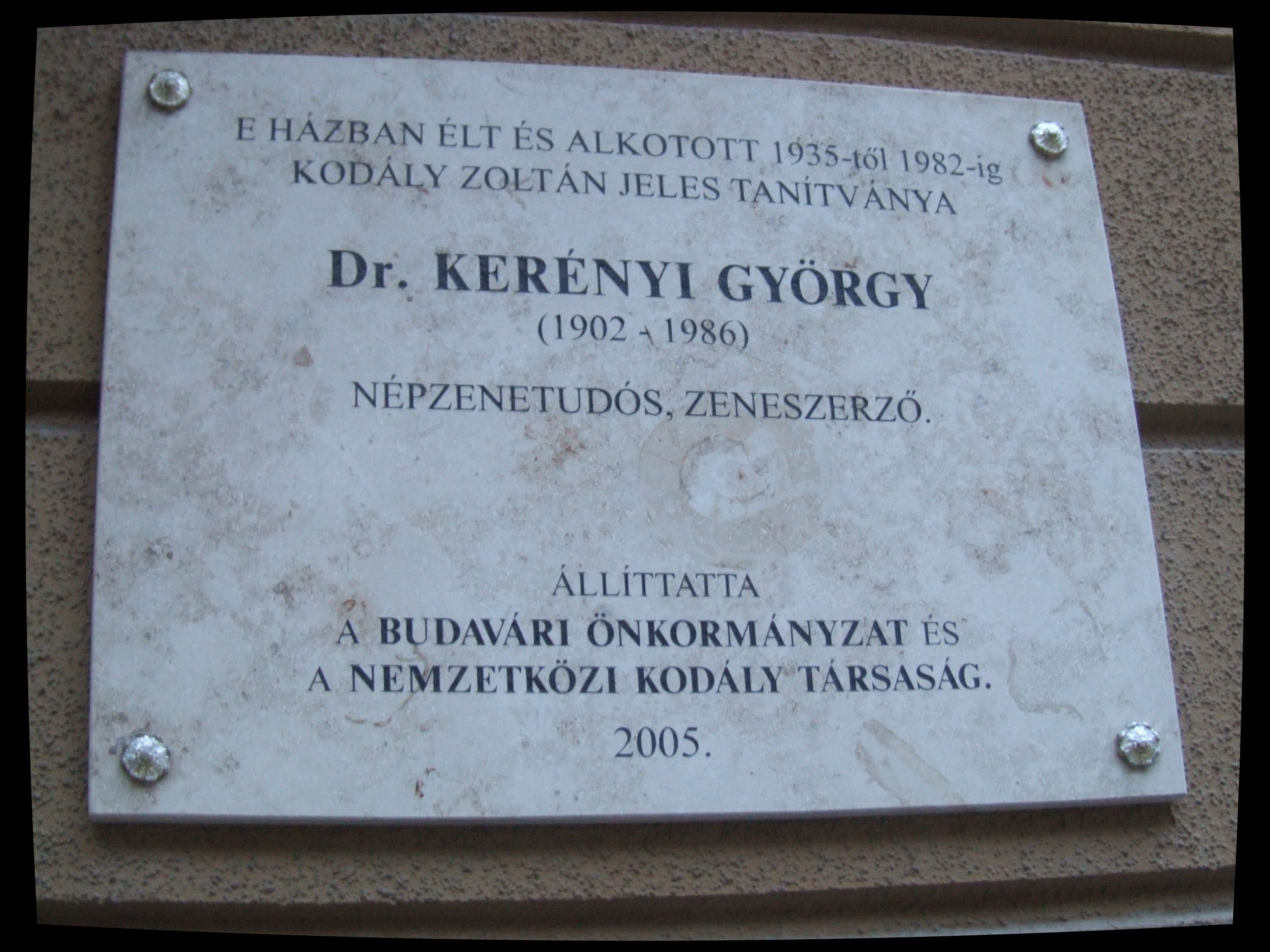 György Kerényi commemorative plaque in Budapest District I, Pauler Street No 17